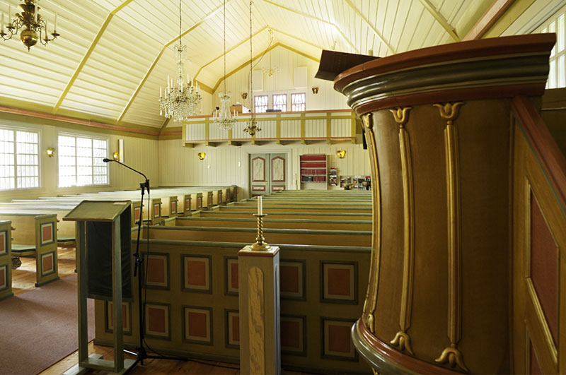 Interior Ammarnäs church in Svedish Lapland